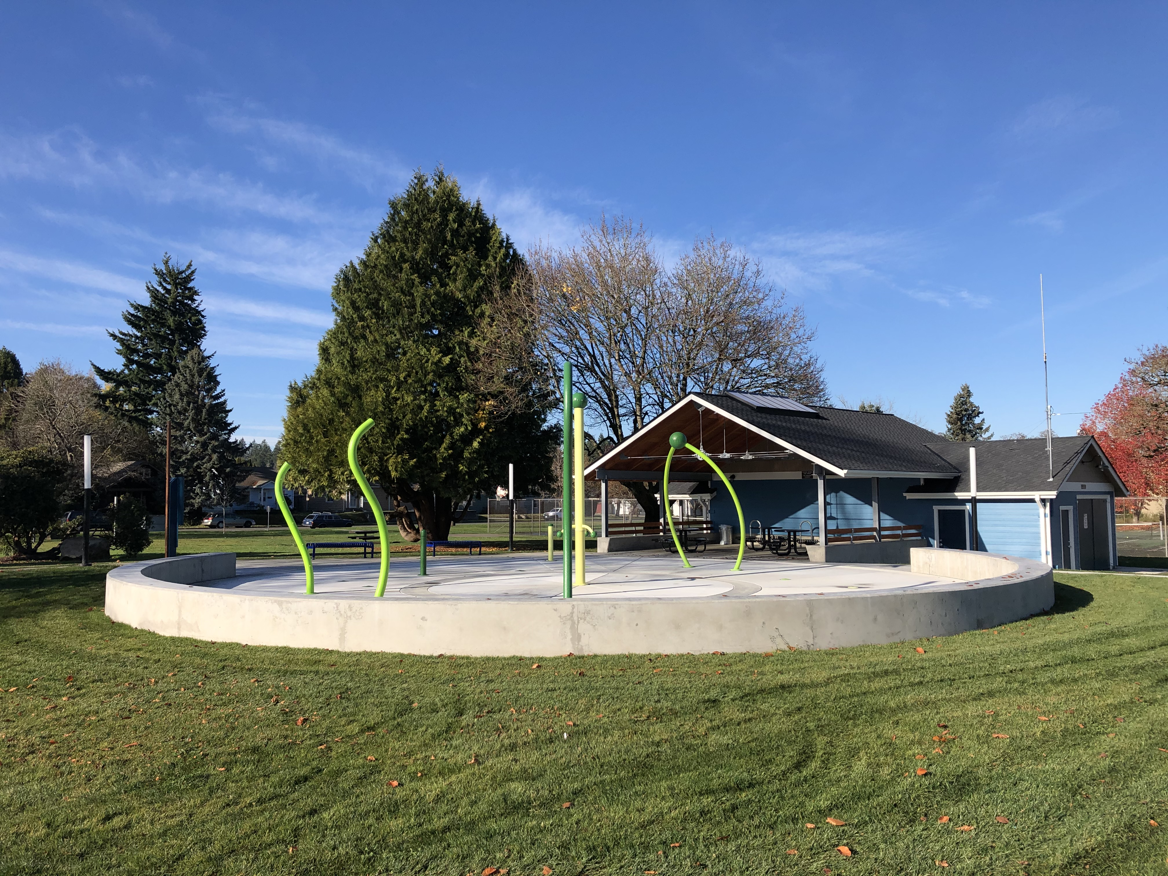 Photograph of the water park, or "sprayground," completed in 2019 at West Olympia's Woodruff Park